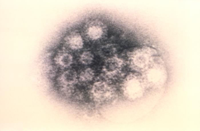 This transmission electron microscopic (TEM) image depicted a number of virions found responsible for a case of acute hemorrhagic conjunctivitis (AHC), “a rapidly progressive, and highly contagious viral disease, primarily caused by two distinct enteroviruses: enterovirus 70 (EV70), and a variant of coxsackievirus A24 (CA24v)”.